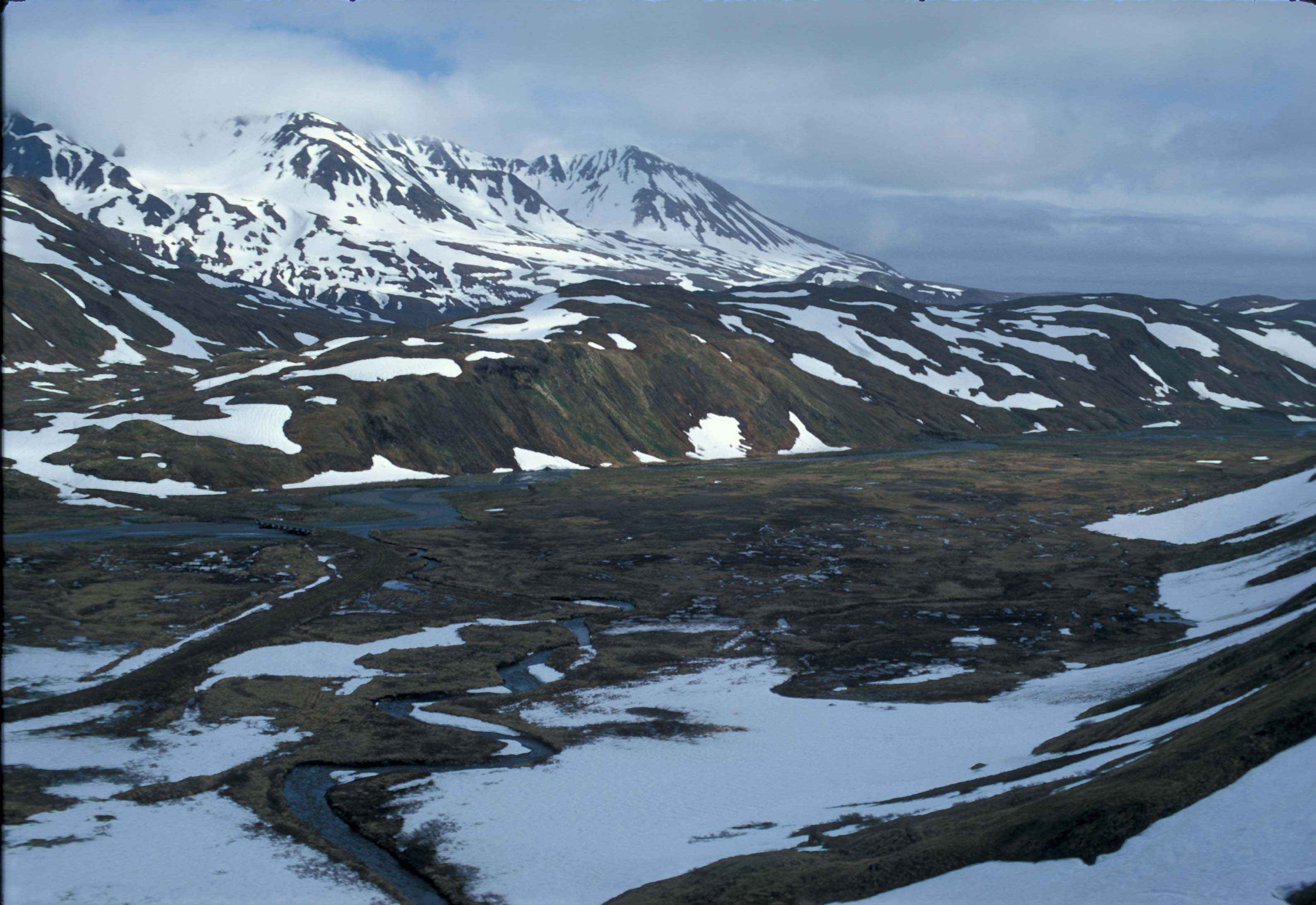 Image title: Attu island o Donnell valley Image from Public domain images website